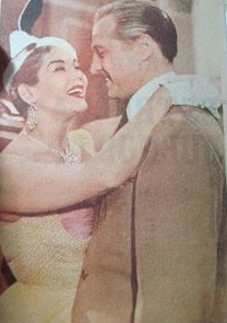 Elena Lucena and Roberto García Ramos- actors from Argentina